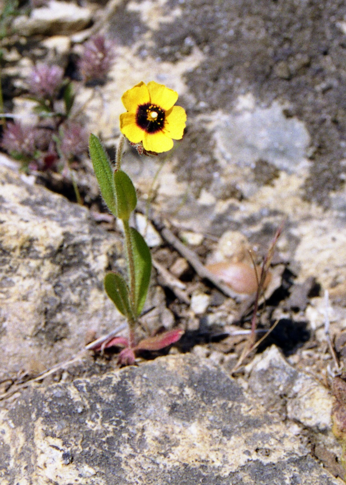 Spotted rockrose in Crete